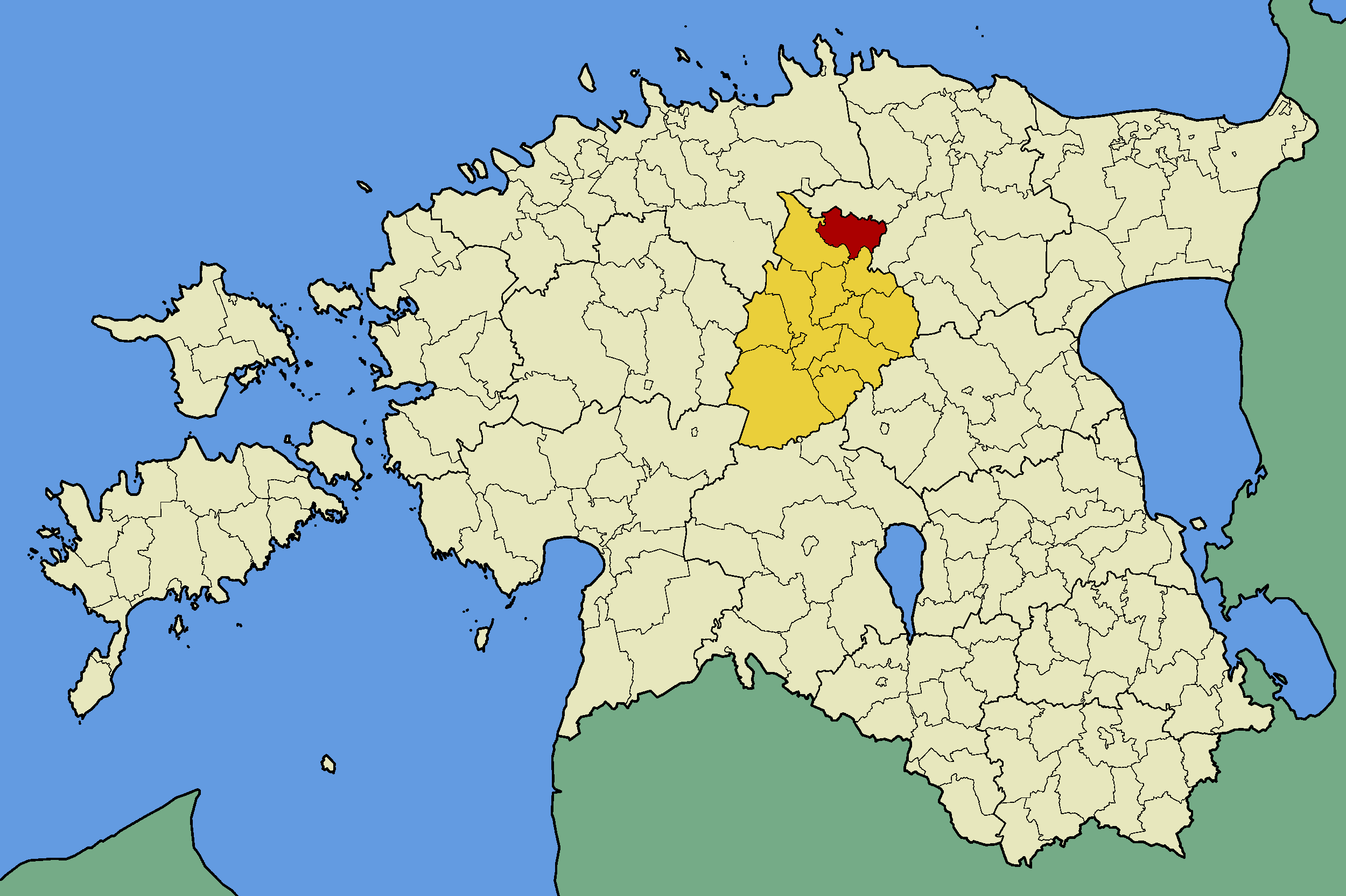 Map of Estonia with borders of municipalities (parishes). Järva county and Ambla municipality emphasized.